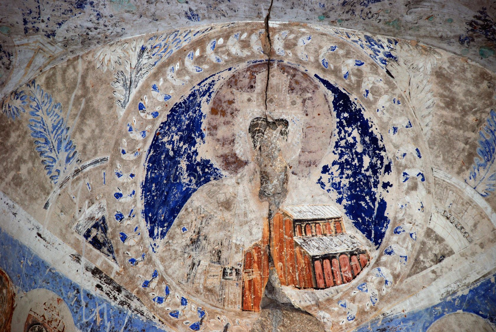 Dörtkilise, Artvin provinve